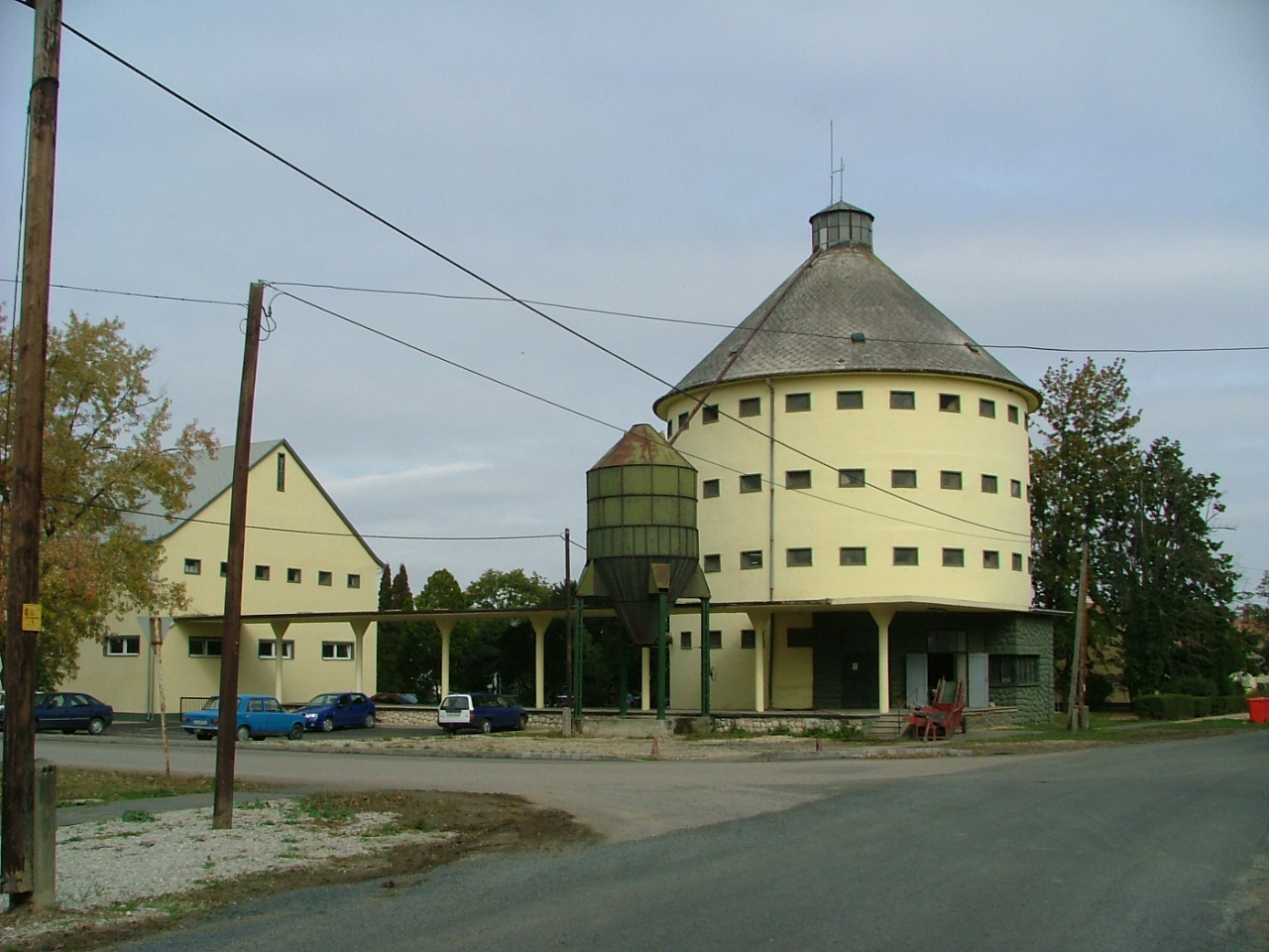 Monument Granary of the Beet Cultivation Research Institute in Sopronhorpács This is a photo of a monument in Hungary, Identifier: 5109